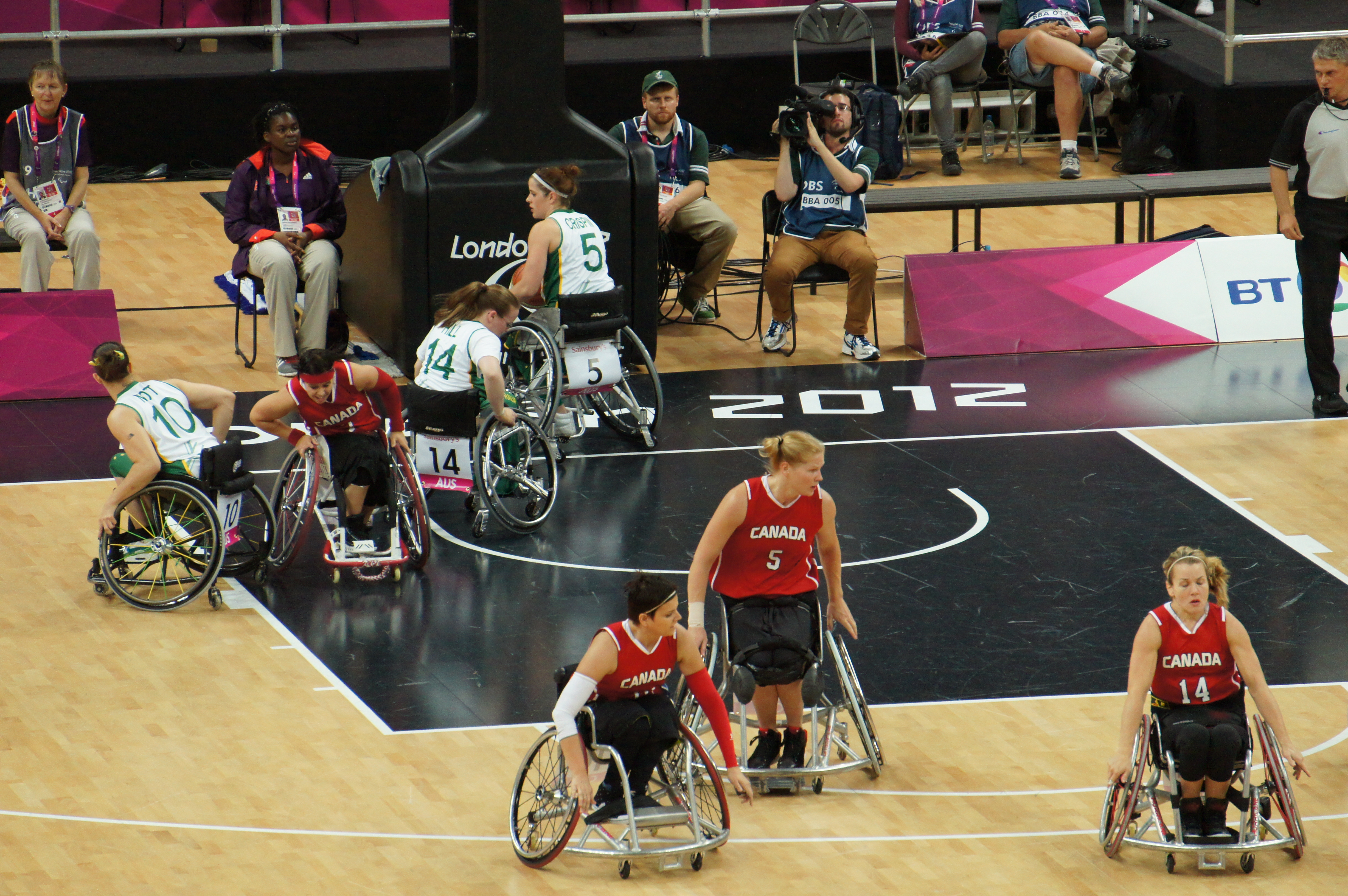 Australia - Canada, women's wheelchair basketball at Paralympics 1 September 2012. Australian players area (left to right) Clare Nott, Katie Hill and Cobi Crispin. Clare and Katie have pinned a Canada's Cindy Ouellet so she cannot move. The Canadian players in the foreground are (left to right): Katie Harnock, Janet McLachlan and Jessica Vliegenthart